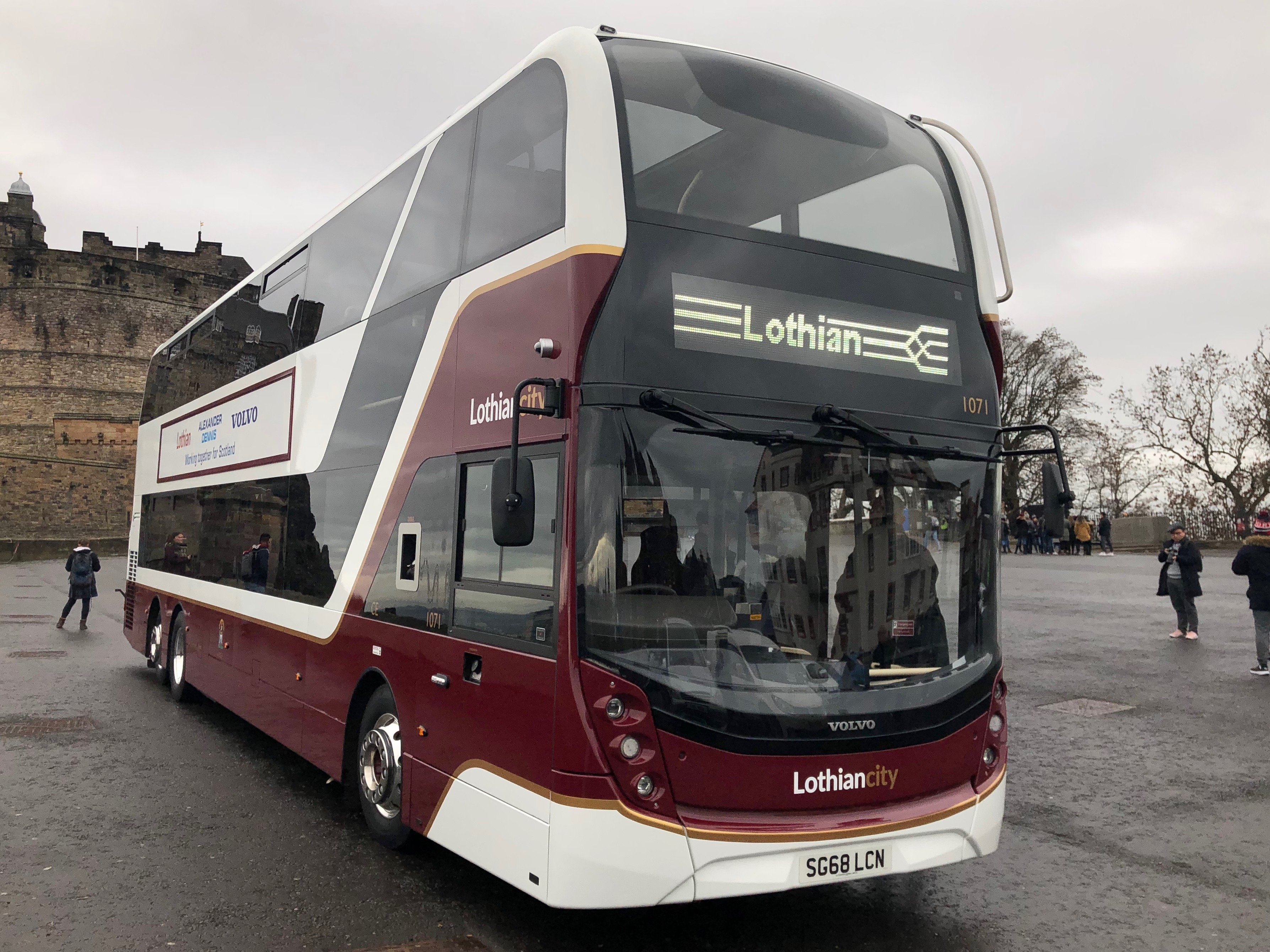 One of Lothian's new 100 seat Envrio400XLB buses, fleet number 1071, on display at Edinburgh Castle esplanade.